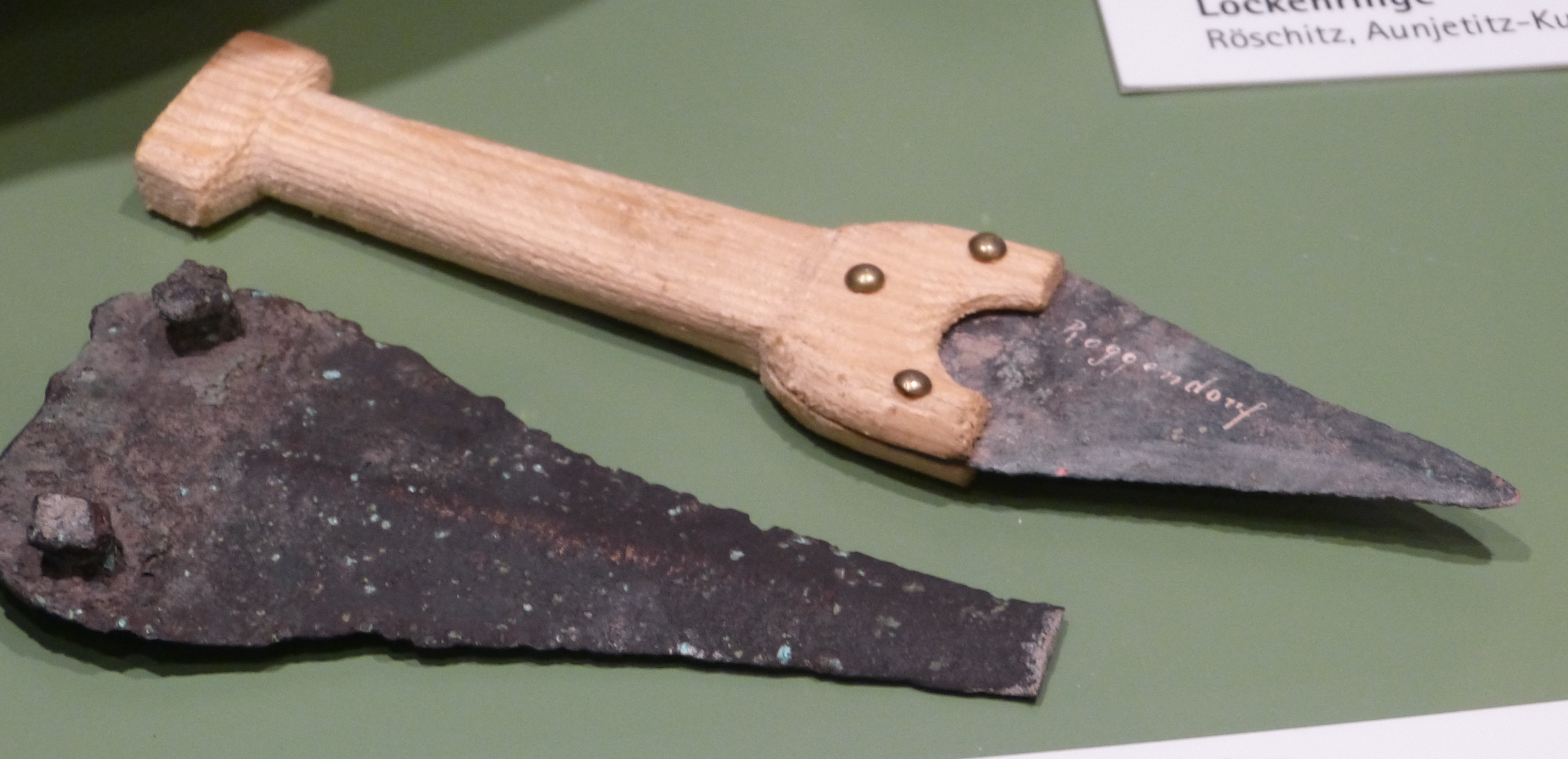 Eggenburg ( Lower Austria ). Krahuletz-Museum: Bronze age daggers of the Aunjetitz culture, from Roggendorf.